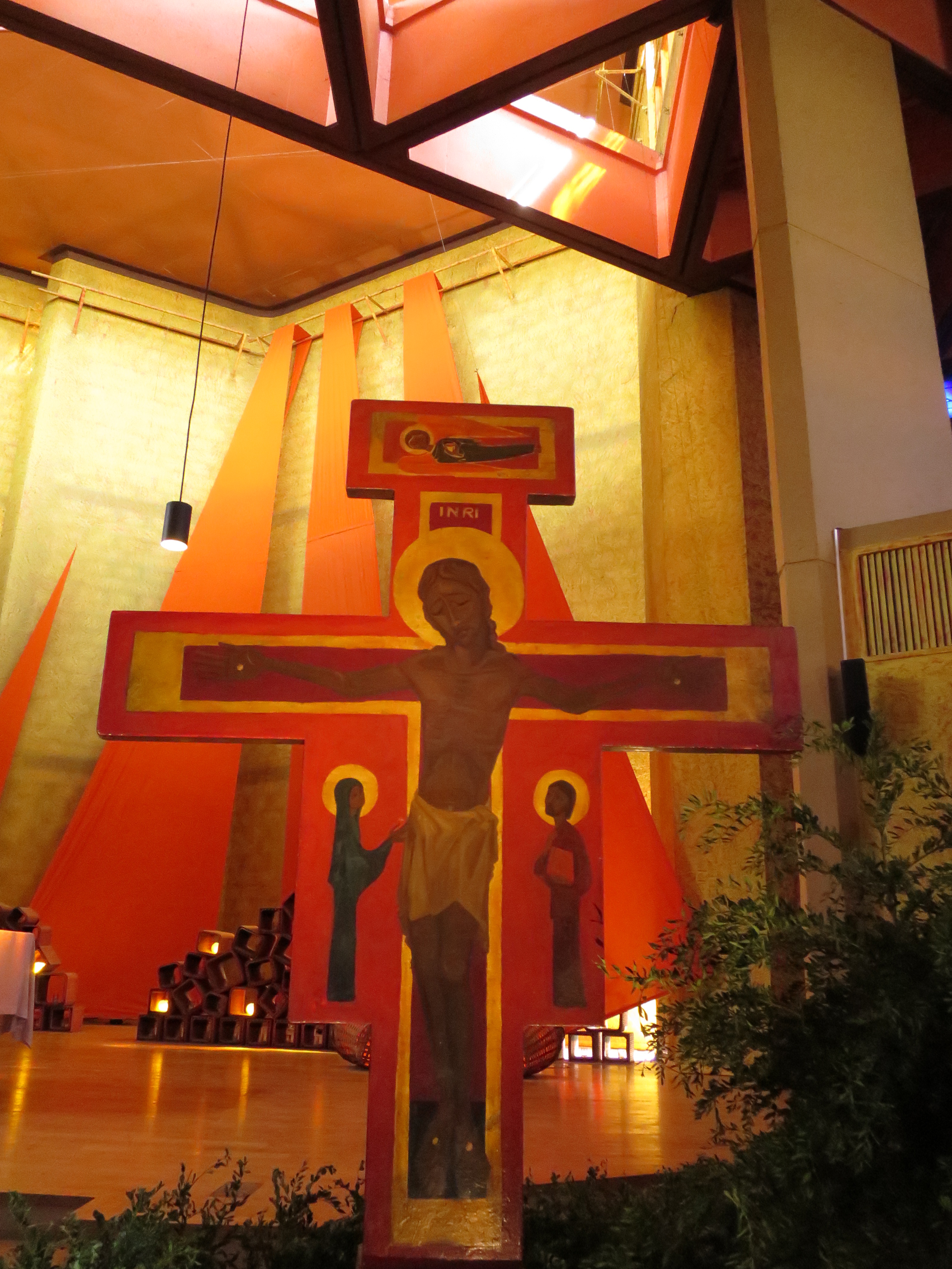 Kreuzikone von Taizé